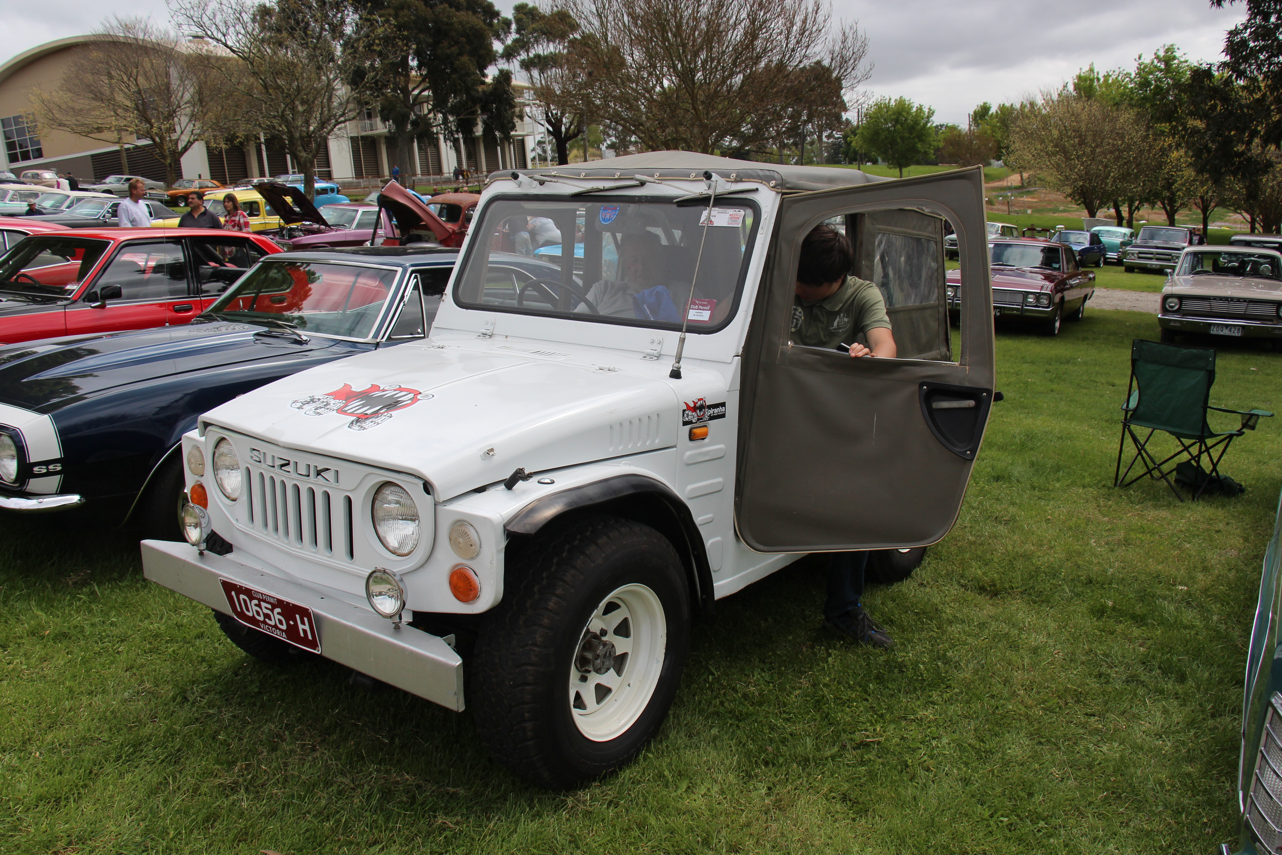 The first Suzuki-branded 4-wheel drive, the LJ10, was introduced in 1970. It had a 359 cc air-cooled, 2 stroke, in-line 2 cyl engine. The 1972 LJ20 was liquid-cooled (new emission regulations). Grille bars were changed from horizontal to vertical. A hardtop now available. 1975 saw the new LJ50, it got a 539 cc, 2 stroke, 3 cyl engine. Originally targeted at the Australian market, but more exports soon followed. A facelift in 1977, introduced rear wheel arch metal flares and a bigger bonnet or hood with cooling slots above the radiator. The LJ80 was an updated version of the LJ50 with an 800 cc, 4 stroke, 4 cyl engine. The interior was also improved, with new seats and steering wheel. Metal doors became available for the first time in 1979, and a pickup truck model (LJ81) was also available now. Replaced by the new Sierra later in 1981